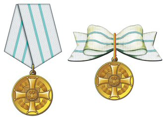 Medals of the Order of Parental Glory. Established by Presidential Decree 1099 or 7 September 2010. Awarded to parents or adoptive parents who are married, in a civil union, or in the case of single-parent families, to one of the parents or adoptive parents who are/is raising, or have raised four or more children as citizens of the Russian Federation. For leading a healthy family life, being socially responsible, providing an adequate level of health care, education, physical, spiritual and moral development of the children, full and harmonious development of their personality, and setting an example to strengthen the institution of the family and child rearing